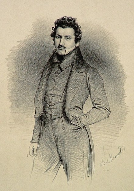 Self-portrait of Marie-Alexandre Alophe, dit Menut (lithograph).